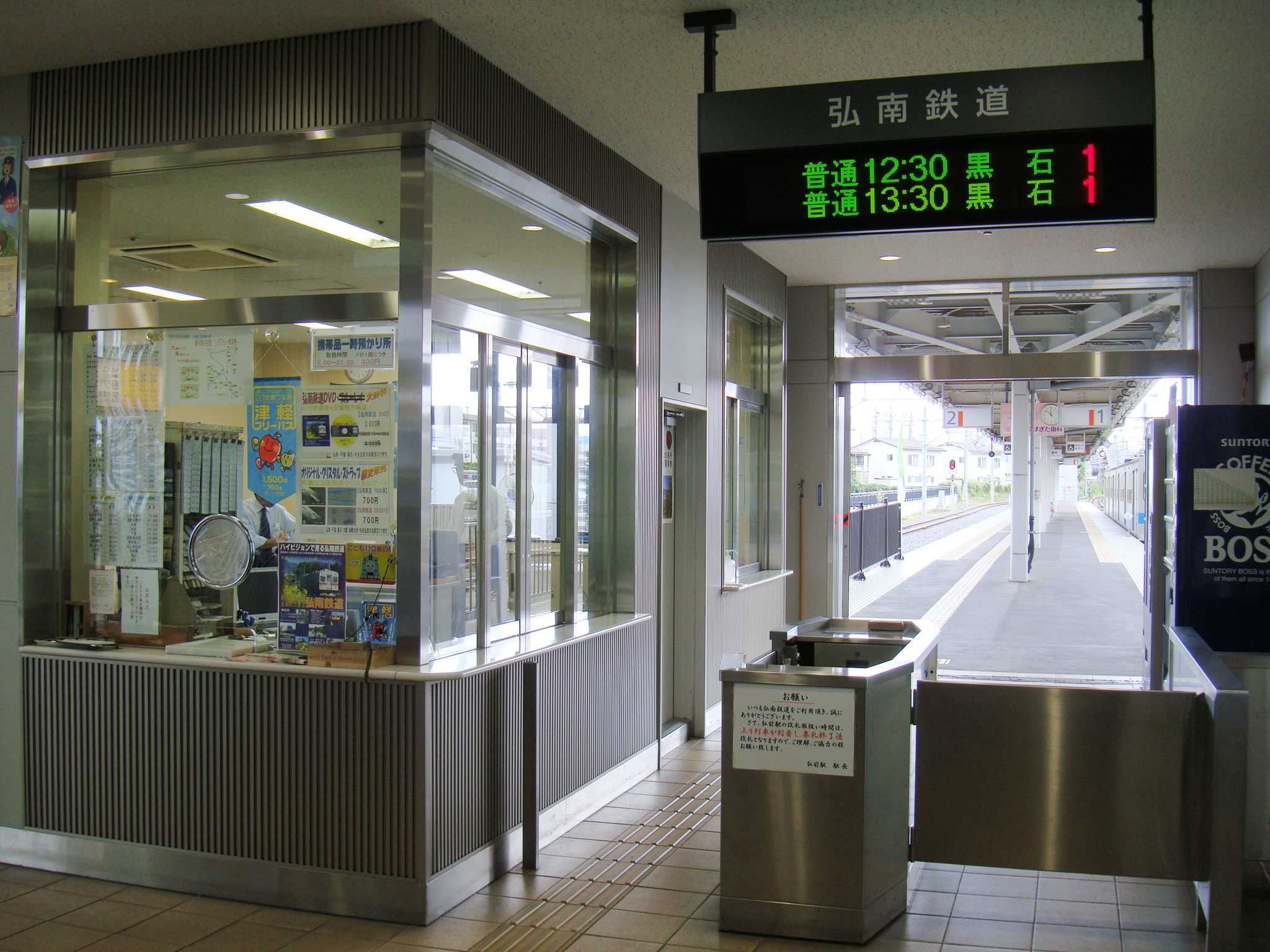 Kōnan Railway Hirosaki Station